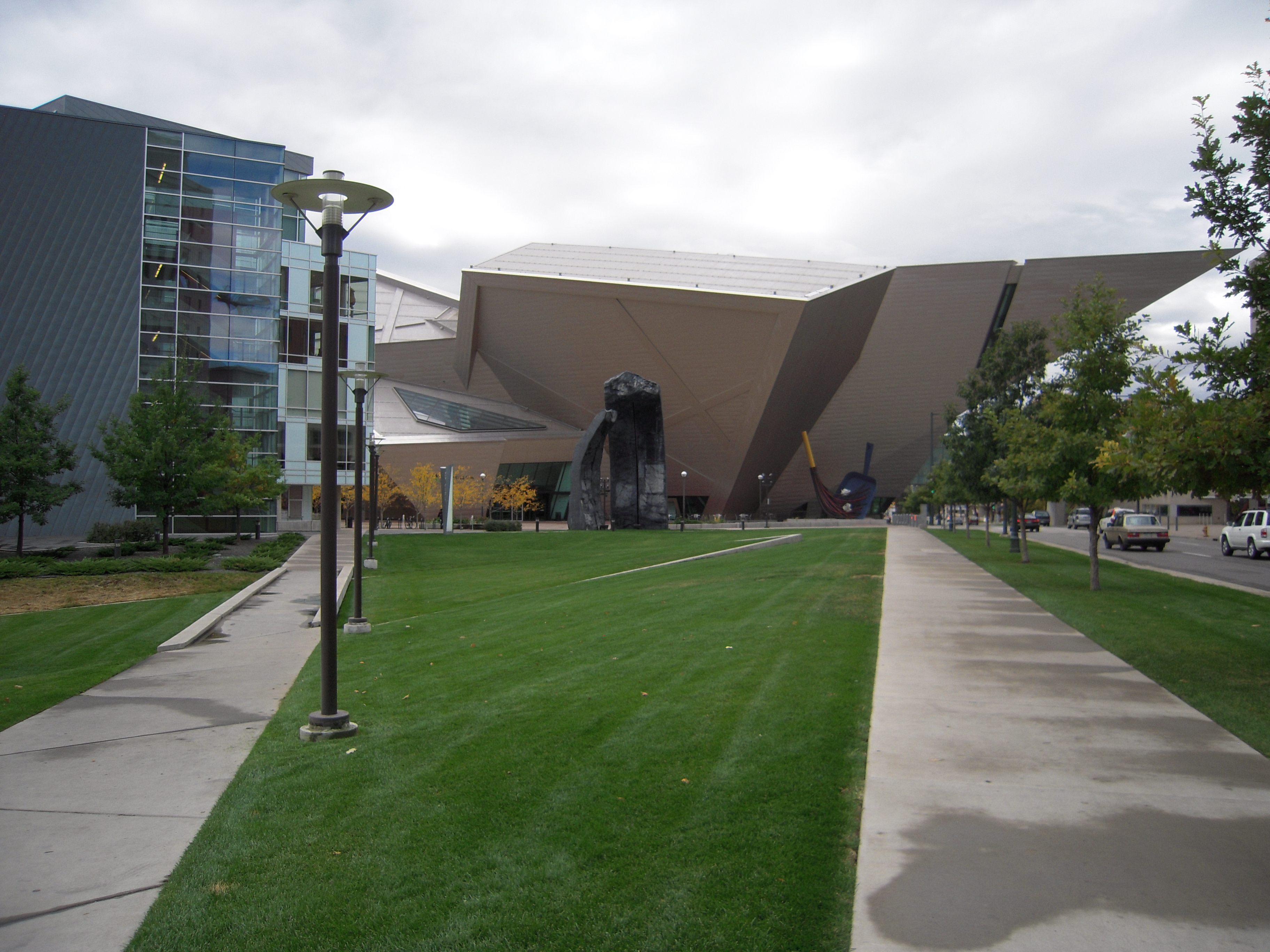 Denver Art Museum